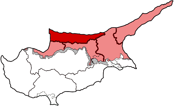 Locator map of the current de facto district of Girne (Cyreneia) in Northern Cyprus.